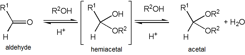 Shows the conversion of an aldehyde to a hemiacetal to an acetal.